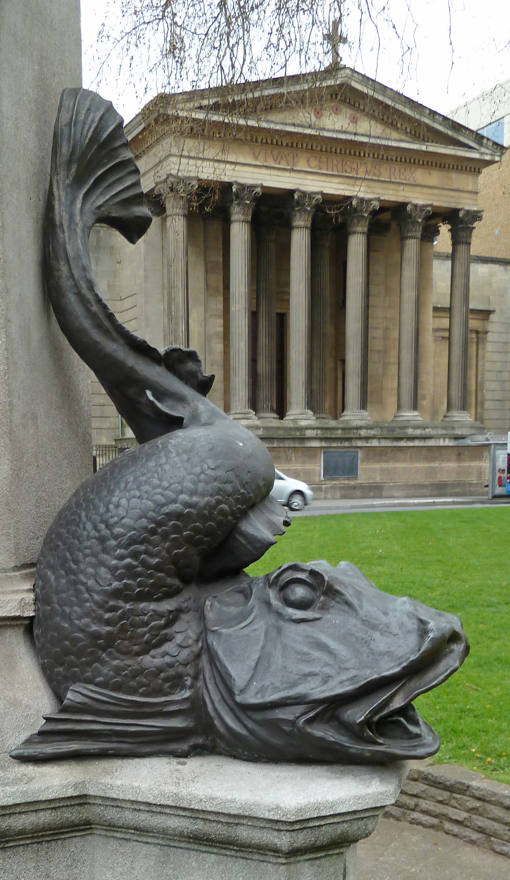 Church of St Mary on the Quay in the background.